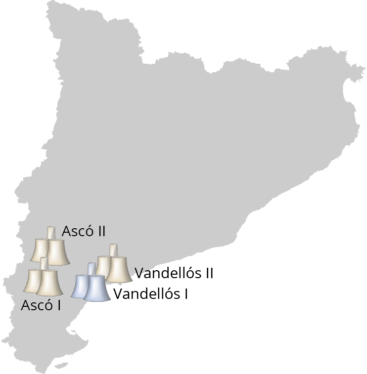 In grey the actives nuclear centrals, in blue whose that are in dismantling.